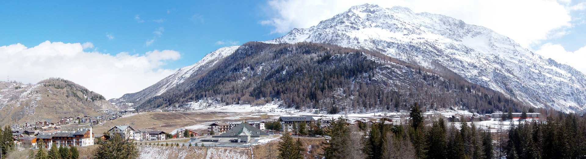 Panorama of La Thuile.